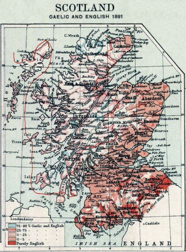 Map showing the use of Gaelic and English in Scotland in 1891. In effect, the map shows which areas were bilingual. The shaded areas show what percentage of the population in that area spoke both Gaelic and English. Note the red line encircling much of the northwest mainland section of Scotland, inside which 50% of the population speaks Gaelic and English. To the south of that area, a smaller percentage of the population spoke Gaelic; to the west of that area, a smaller percentage of the population spoke English. In 1891, Gaelic was spoken by some part of the population across much of Scotland, and especially the northwest.